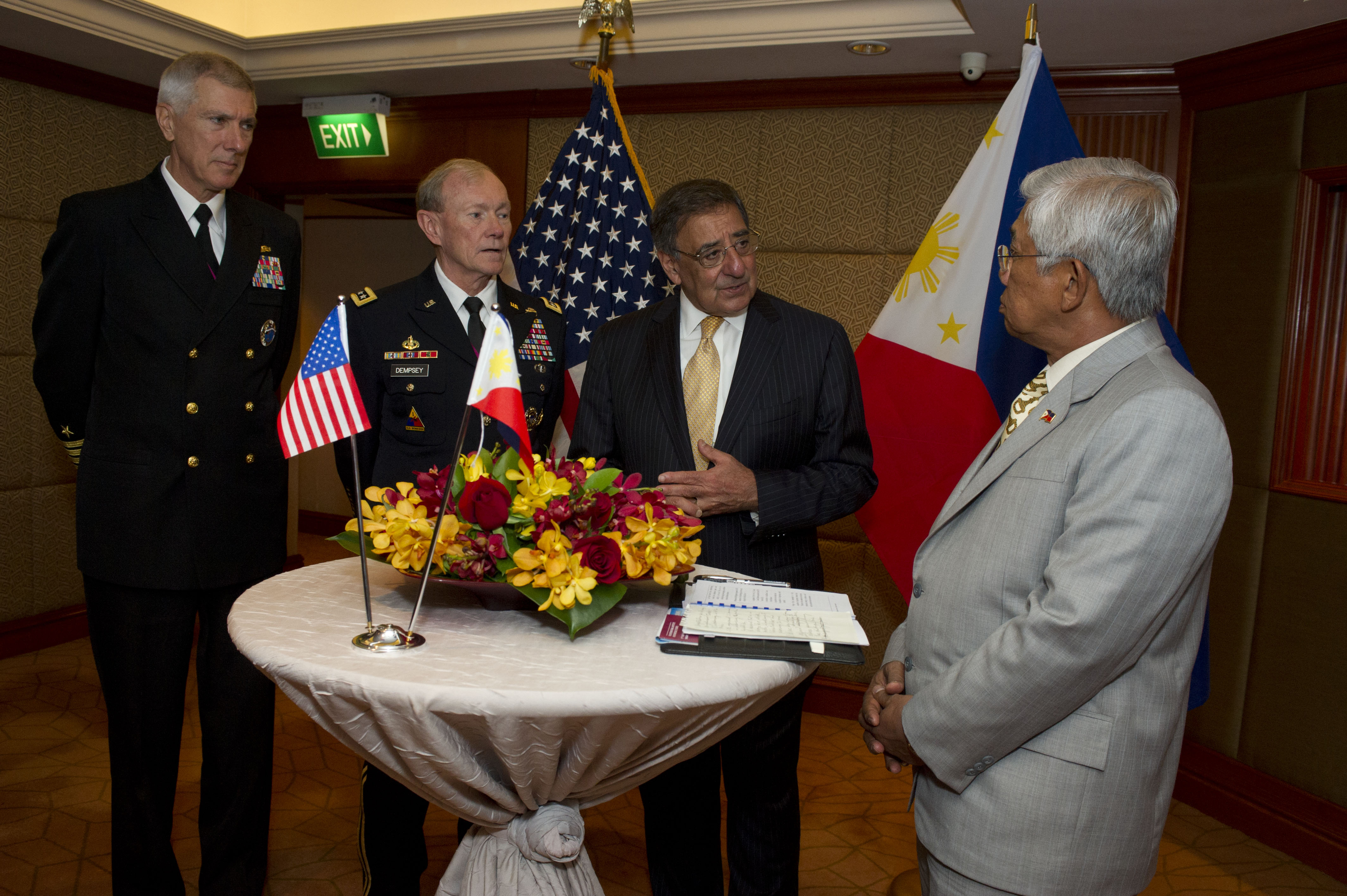 Secretary of Defense Leon E. Panetta (2nd from right) meets informally with the Philippines' Secretary of National Defense Voltaire Gazmin (right) at the Shangri-La Dialogue in Singapore on June 2, 2012. Commander, U.S. Pacific Command Adm. Samuel J. Locklear (left) and Chairman of the Joint Chiefs of Staff Gen. Martin Dempsey joined Panetta at the conference.